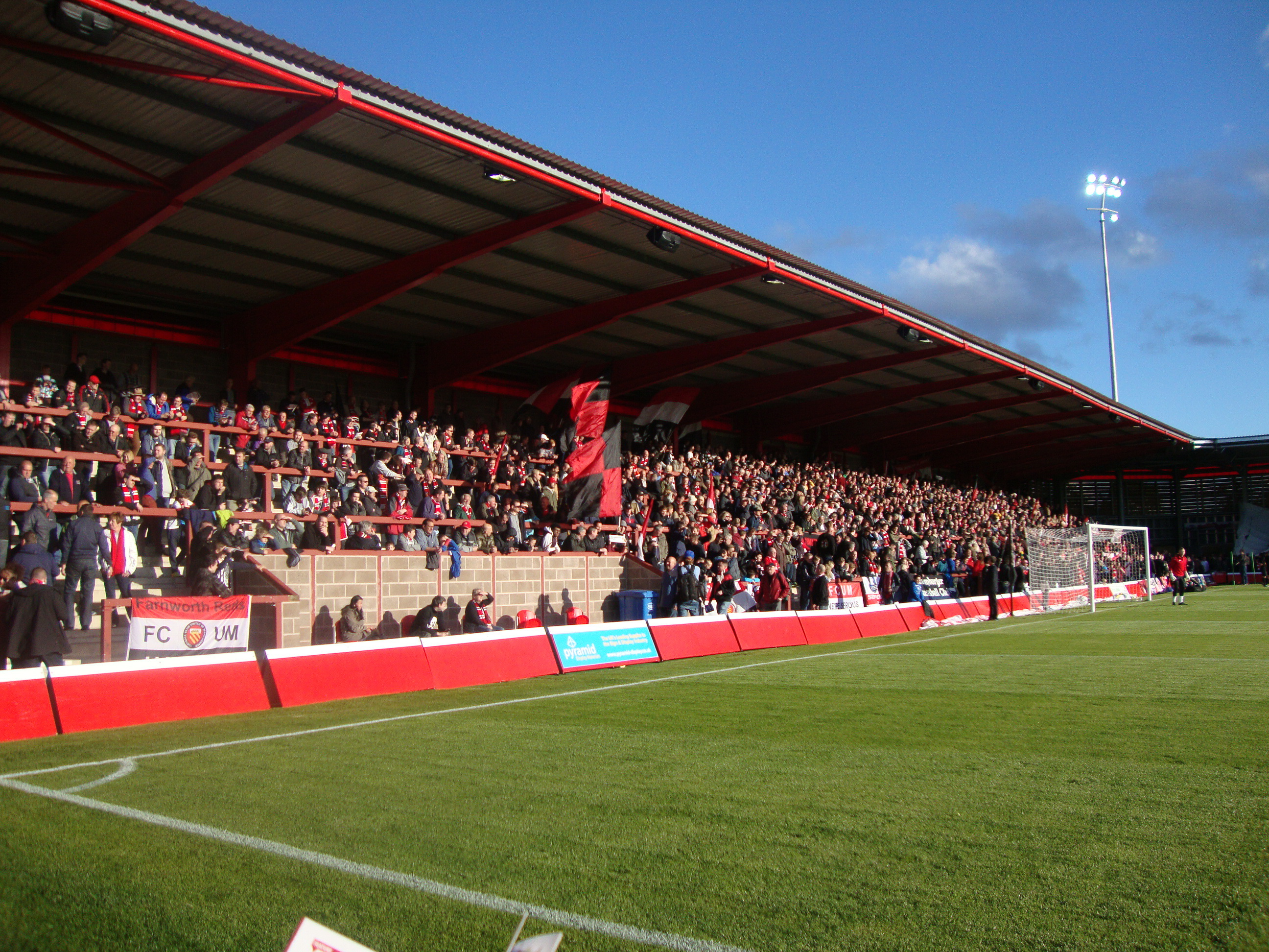 St Mary's Road End at Broadhurst Park (during opening game against Benfica, 29 May 2015)